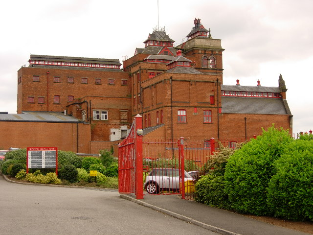 The former James Shipstone & Sons' Star Brewery, Nottingham; now Shipstone Business Park. View from the Northgate entrance